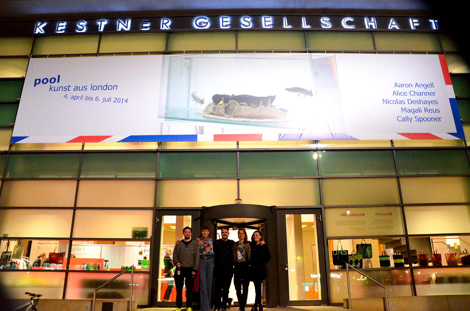 Aaron Angell, Alice Channer, Nicolas Deshayes, Magali Reus and Cally Spooner in front of the Kestnergesellschaft in Hanver at the preview of their exhibition (translated) pool. art from London...